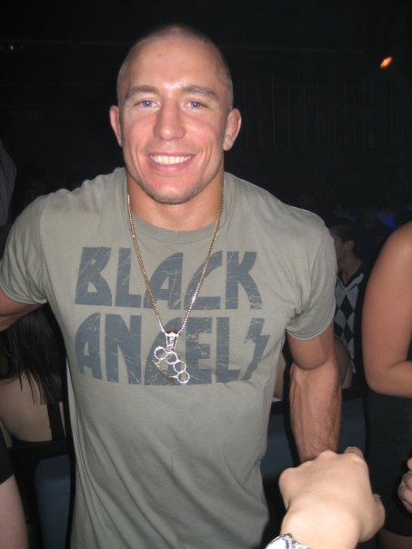 Photo of Georges St-Pierre taken at Club Opera.